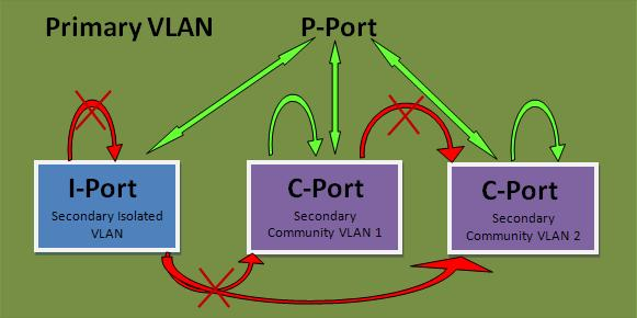 Created by Neha Parmar